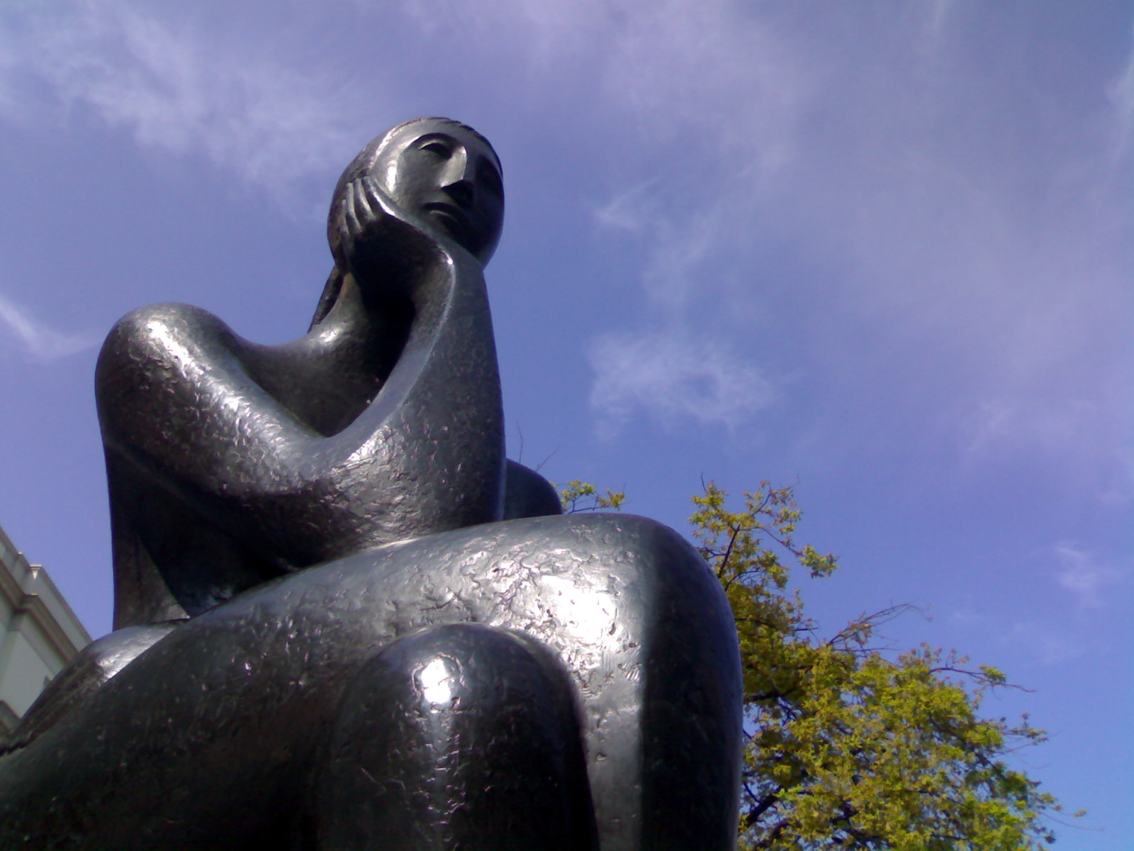 A woman waiting